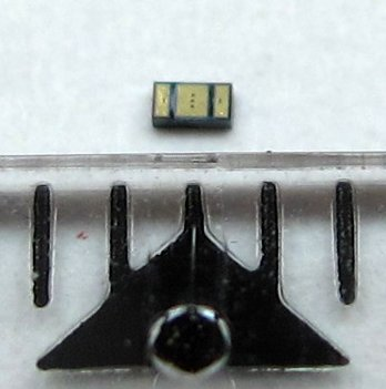 Photograph of a Wafer Level Chip Scale Package with three pins. Dimension of the chip: 0.5mm * 1.0mm